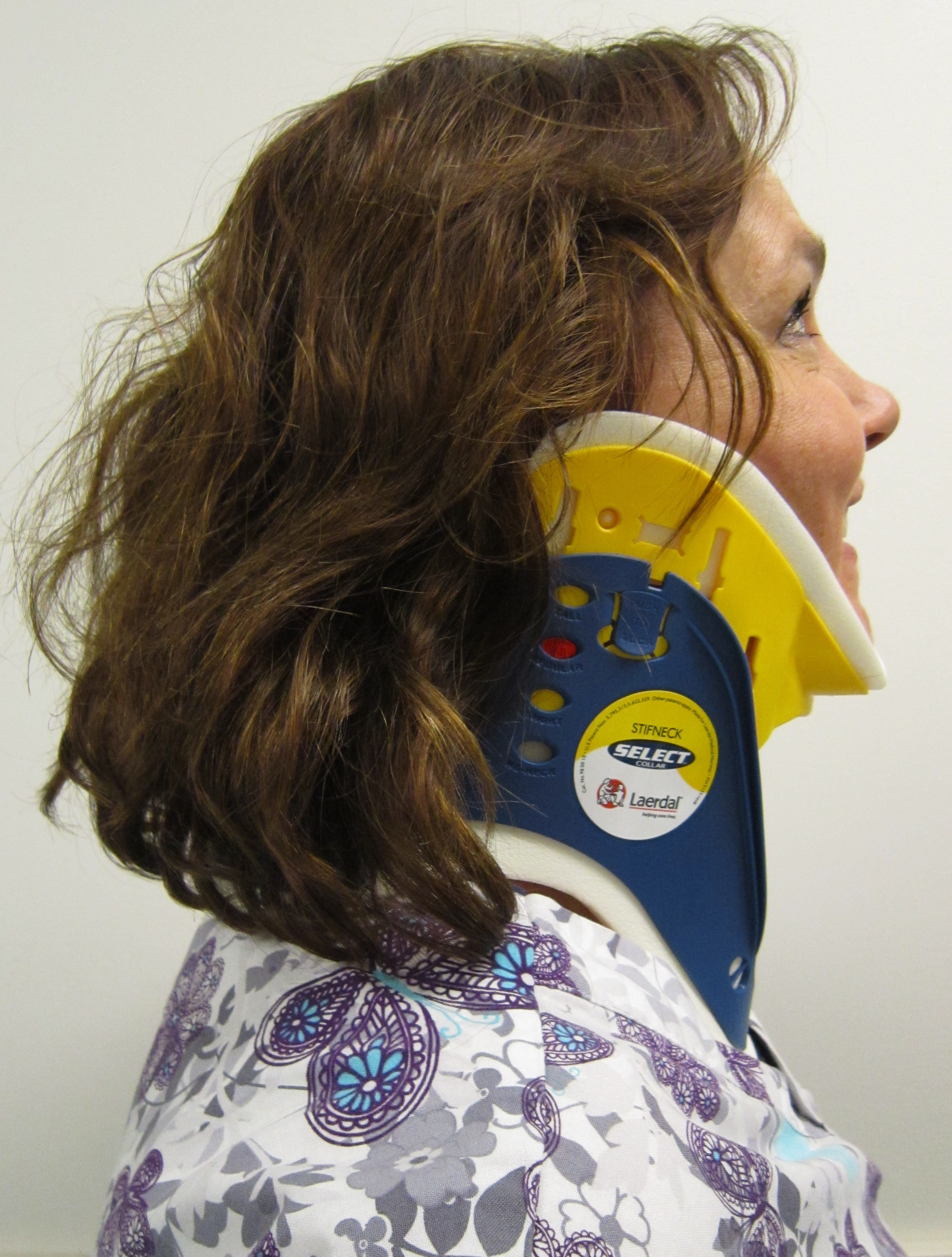 A side view of a person wearing a C spine collar.